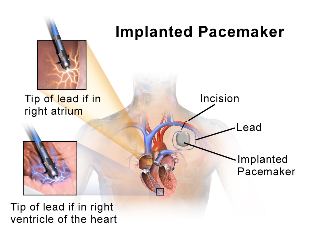 Implanted Pacemaker. See a related animation of this medical topic.